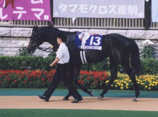 Zenno Rob Roy(Rracehorse, Tokyo Racecourse on October 31, 2004)